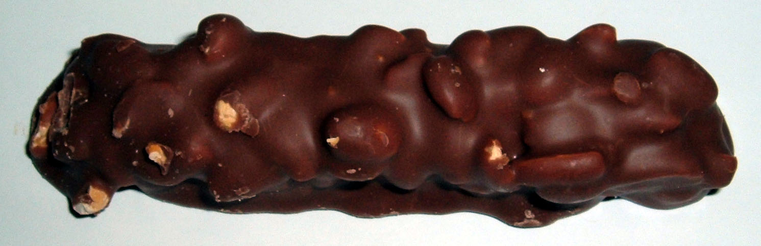 Baby RuthPurchased Feb. 2005 in USA